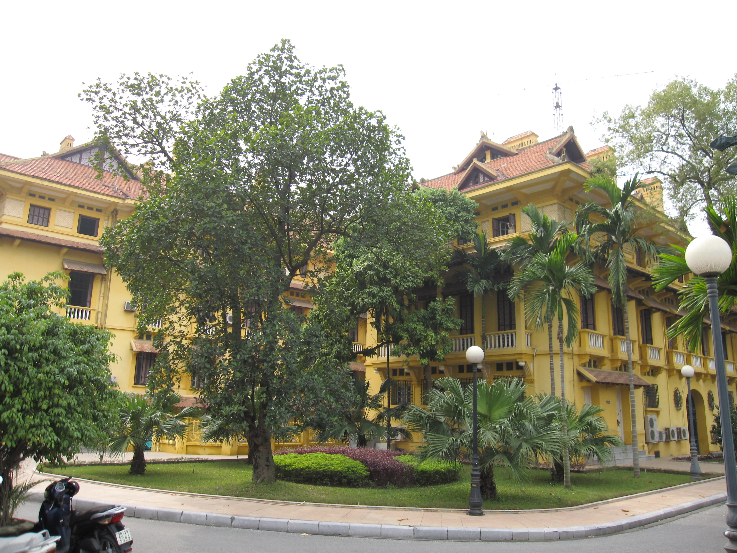 Ministry of Foreign Affairs of Vietnam, at Ba Dinh square.